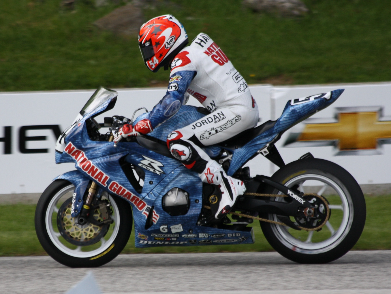 The Superbike #54 of Roger Lee Hayden at the second day of the 2013 Subway SuperBike Doubleheader at Road America.